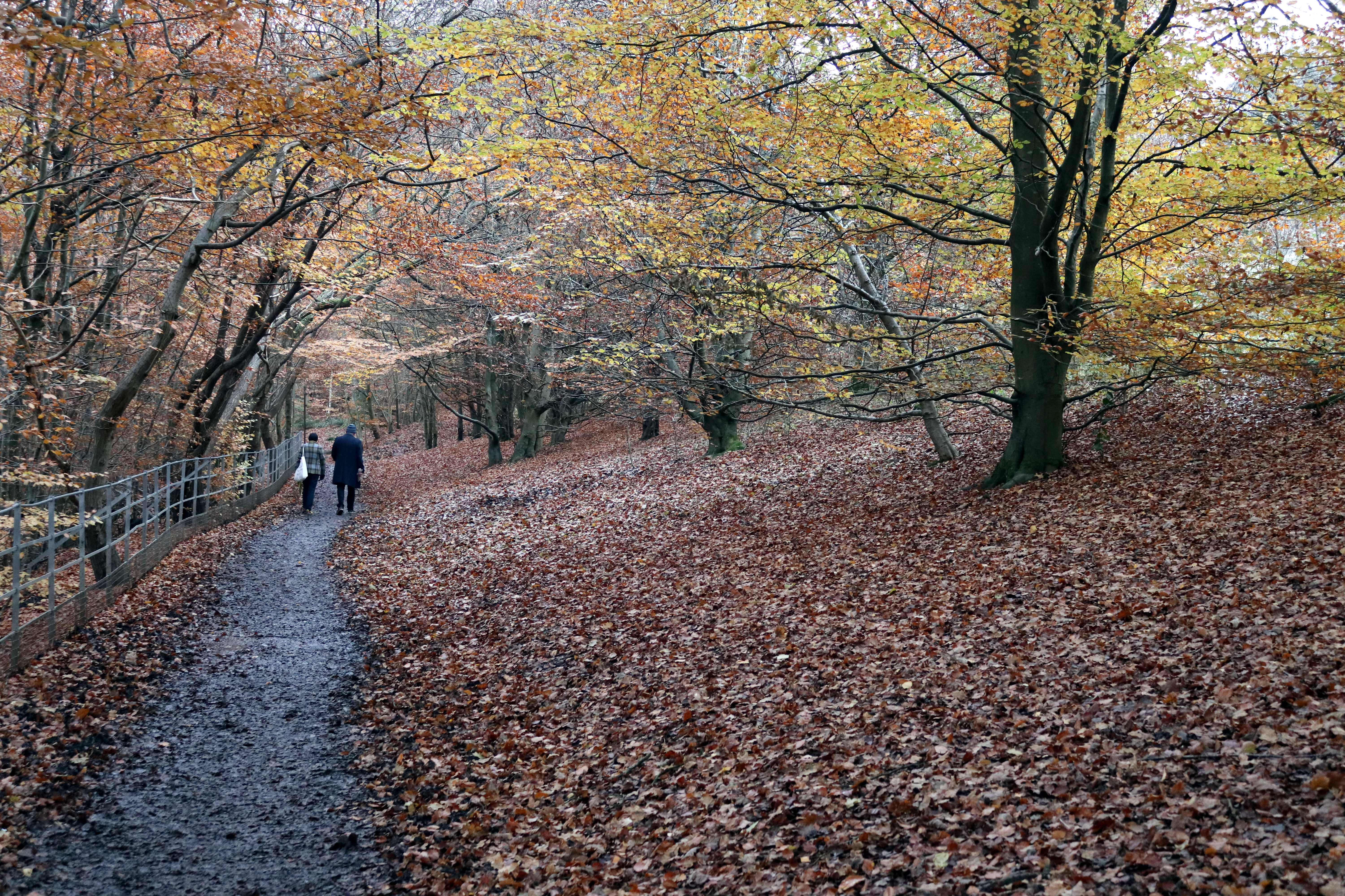 Autumn colors in Scotland